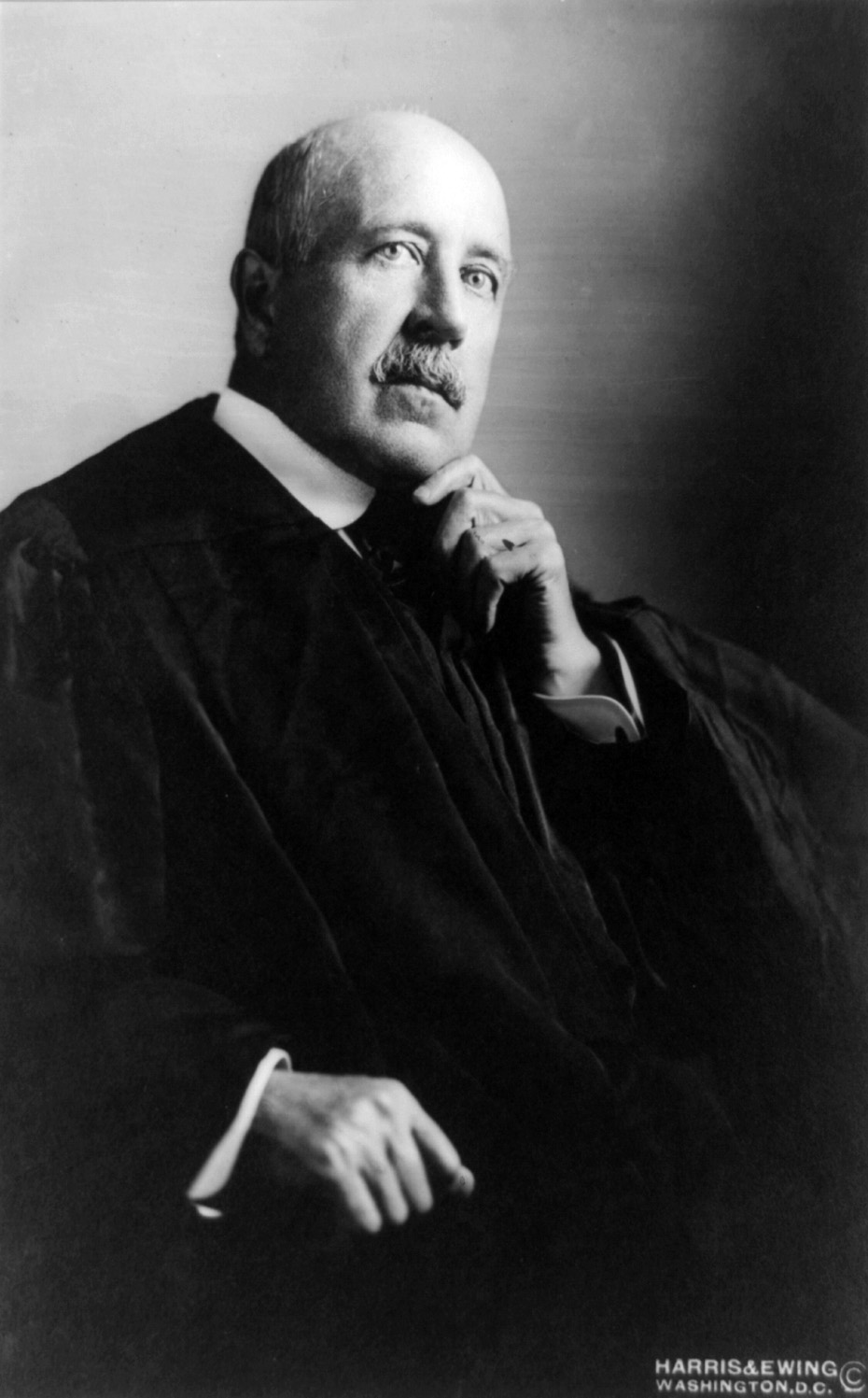 Robert Wodrow Archbald, U.S. federal court judge